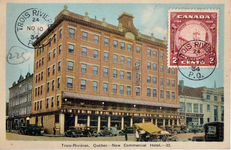 2c Seal of New Brunswick 1934 Trois Rivieres, P.Q. PPC (Trois-Rivieres, Quebec--New Commercial Hotel) to Albert, France. Franked view side.Other side